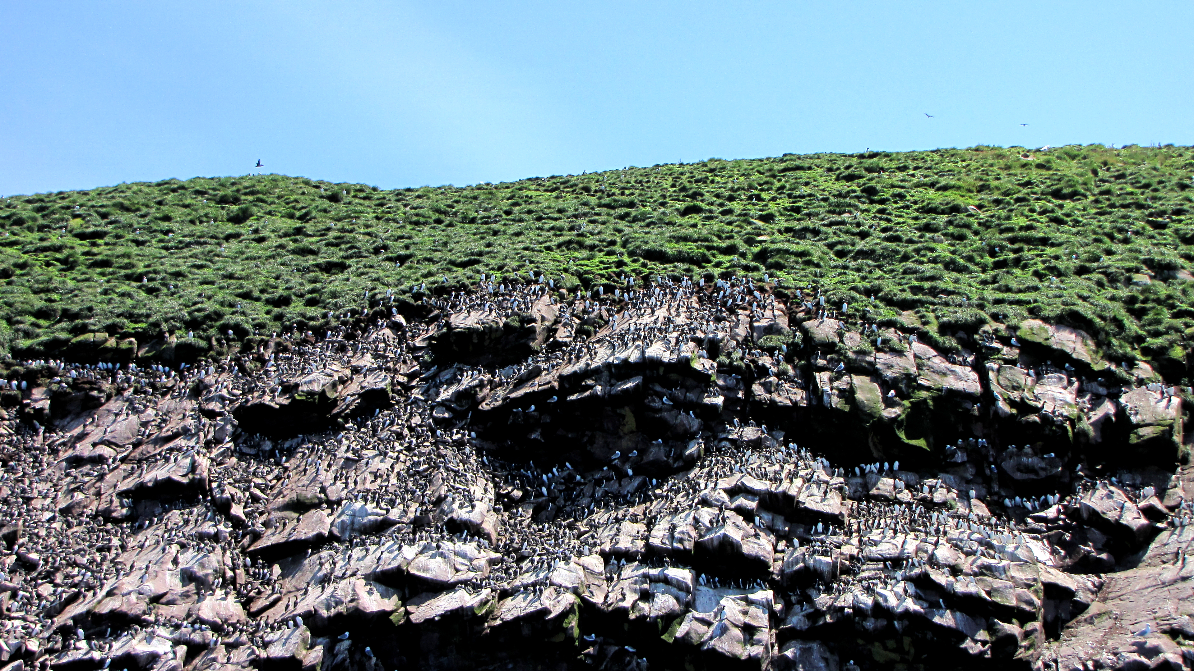 Bird colonies, Gull Island, Witless Bay Ecological Reserve, Newfoundland and Labrador. Puffins nest in the burrows above while Common Murres nest in the rock shelves.